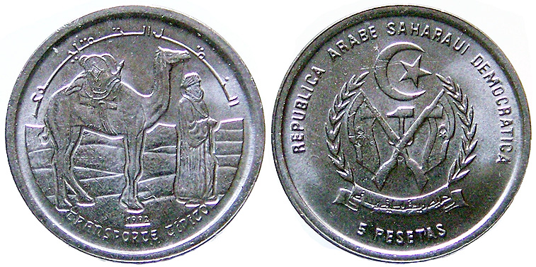 5 Sahara pesetas